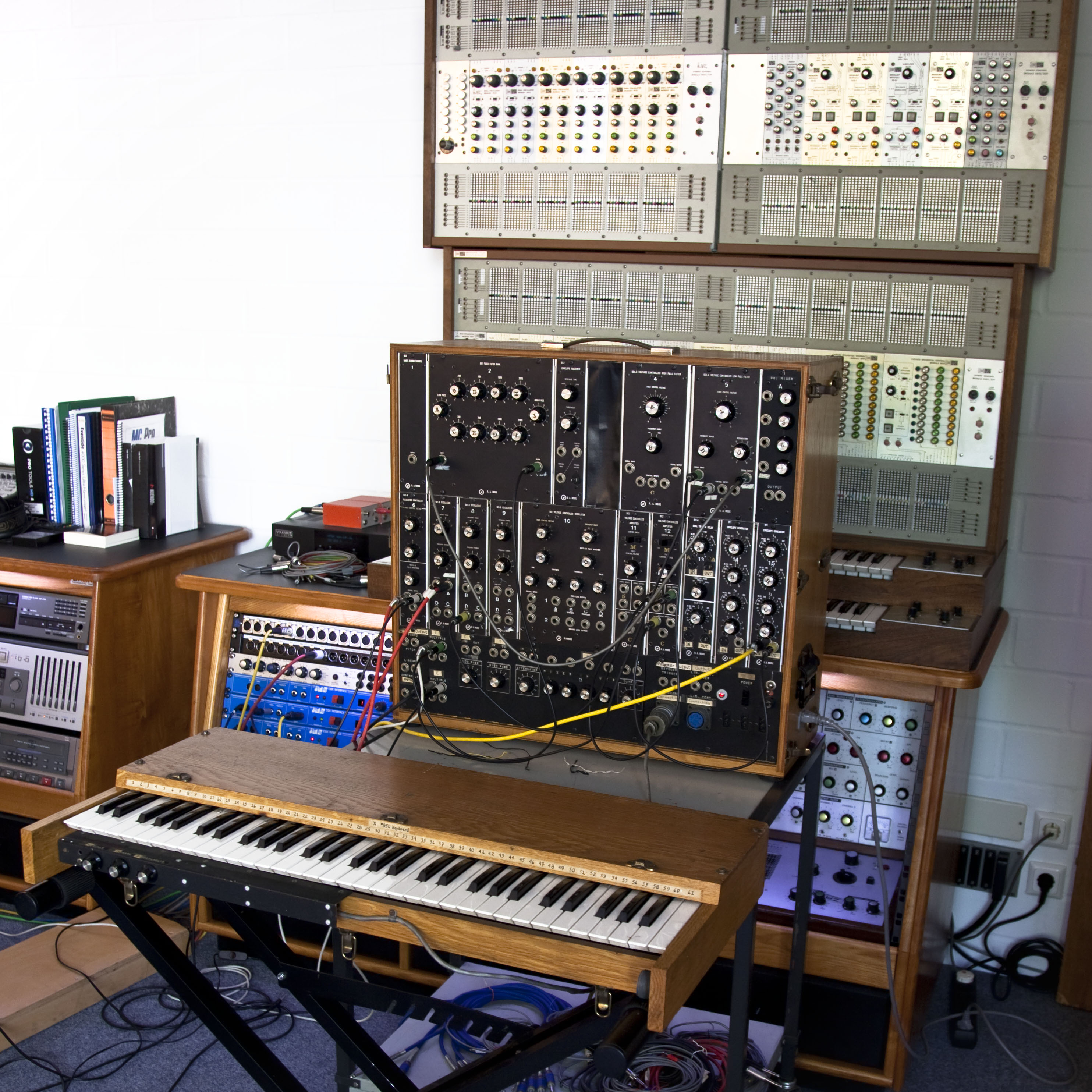 A music studio at the College for Music (Musikhochschule) in Cologne, Germany, has two analog synthesizers still in action: a Moog modular synthesizer from the late 1960s and, in the background, an ARP 2500 from 1970. Famous classical composers interested in the field of electronic music used the studio massivly for their work.